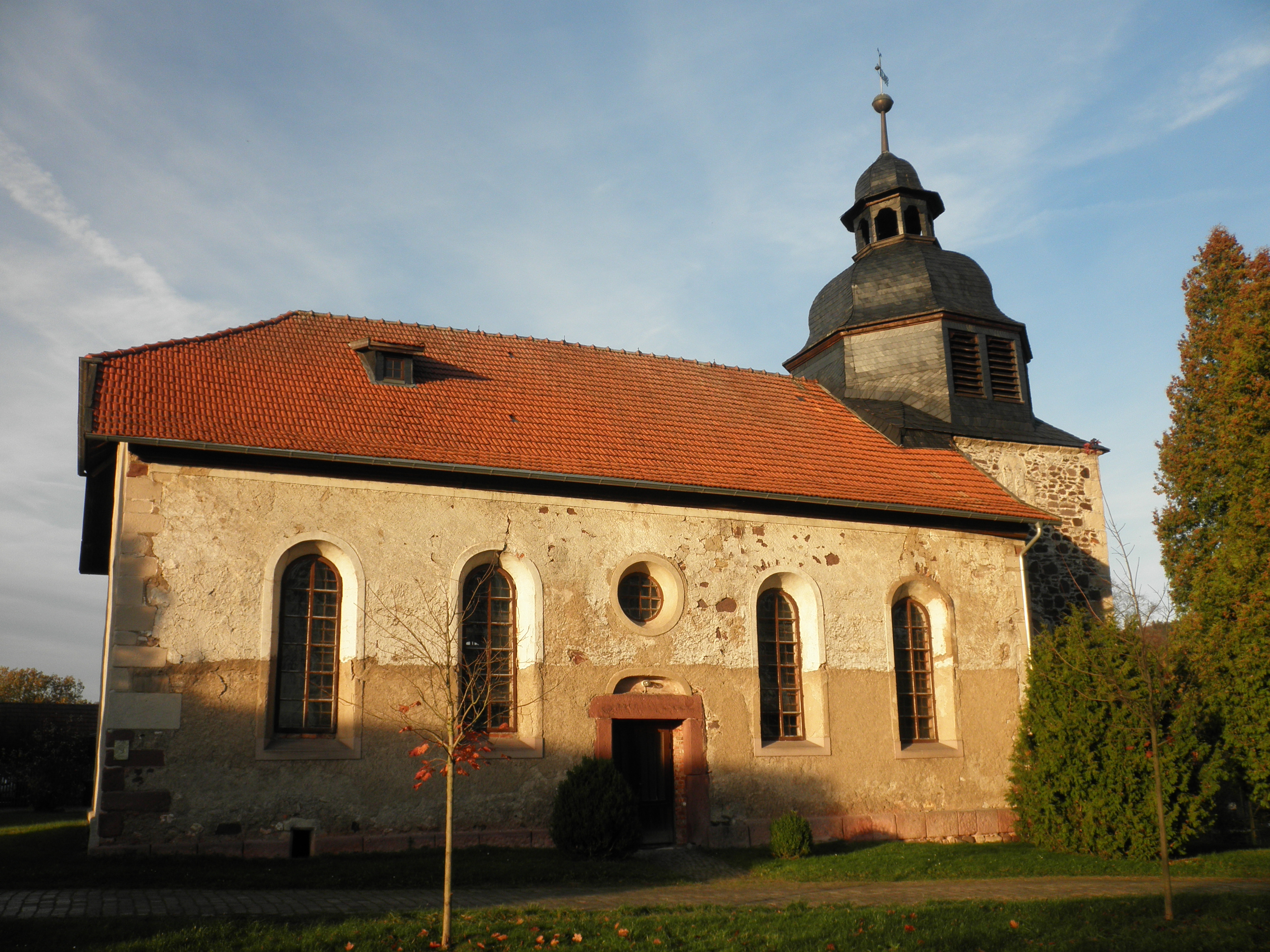 Church in Werna (Ellrich) in Thuringia